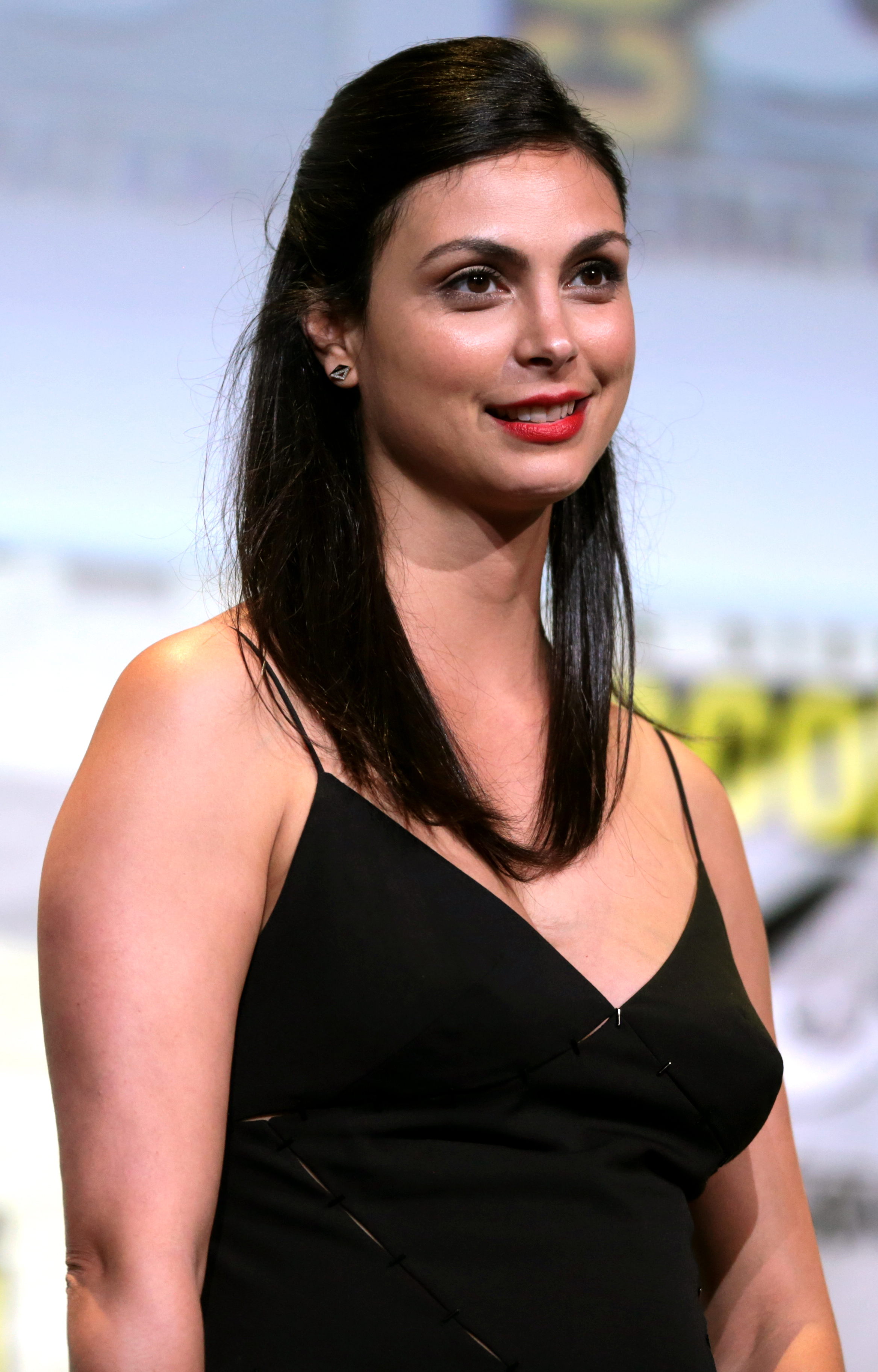 Morena Baccarin speaking at the 2016 San Diego Comic-Con International in San Diego, California.